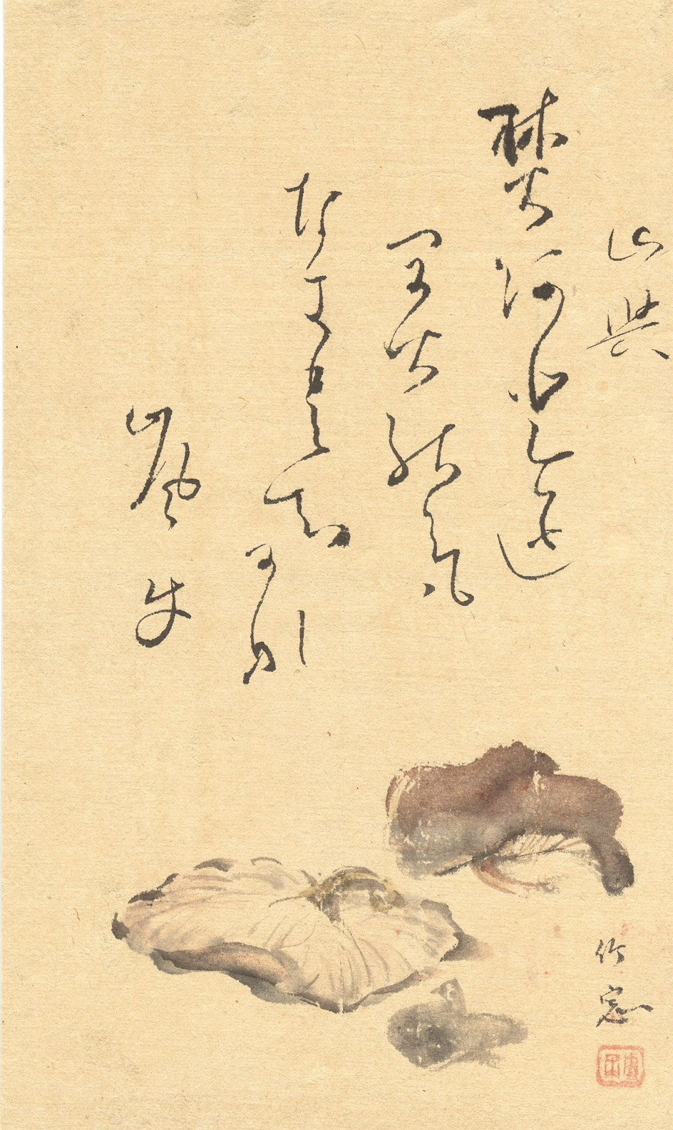 It seems Haiku by Rangyu (1798-1876) and picture by Chikuso (1763-1830)